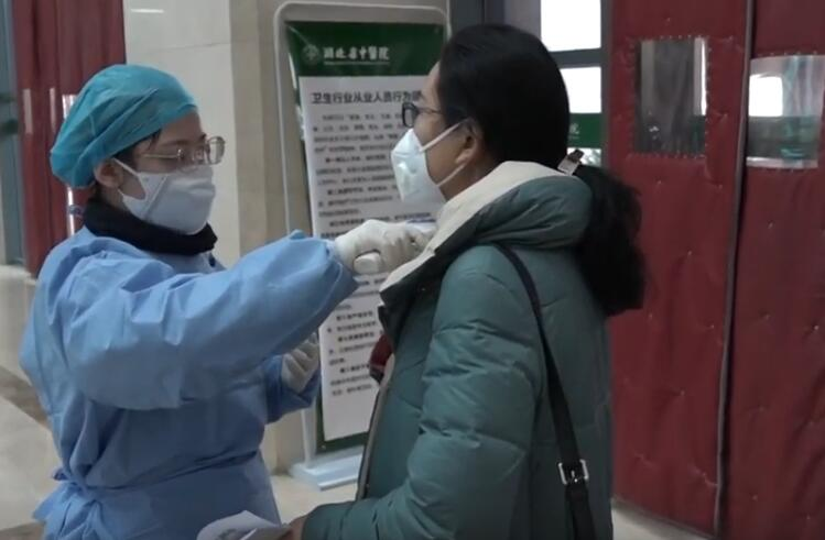 a nurse measuring the body temperature for outpatients in Hubei TCM Hospital